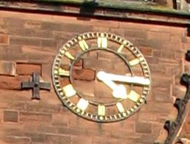 The Clock of Shrewsbury Abbey, Shrewsbury, Shropshire. Picture taken by Chris Bayley.